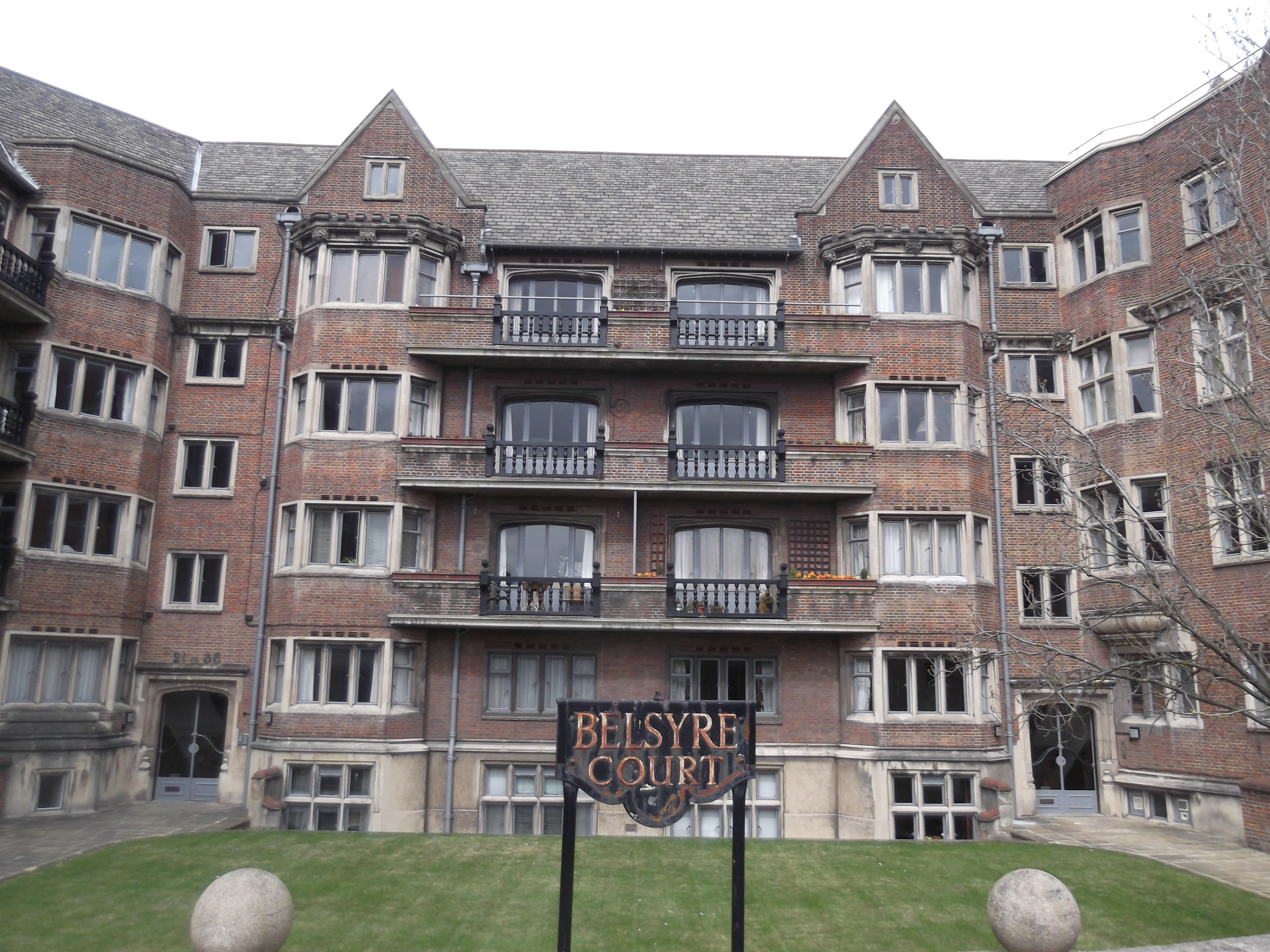 Belsyre Court courtyard, Observatory Street, Oxford, England, seen from the south